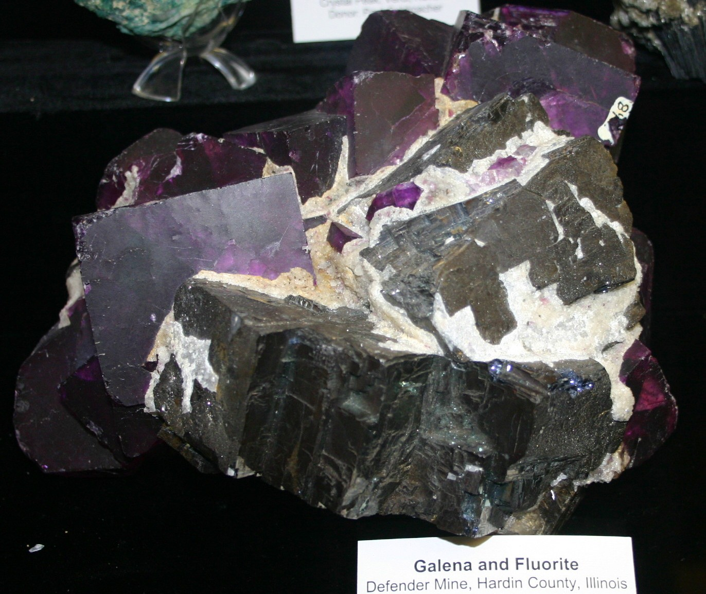 Fluorite and Galena